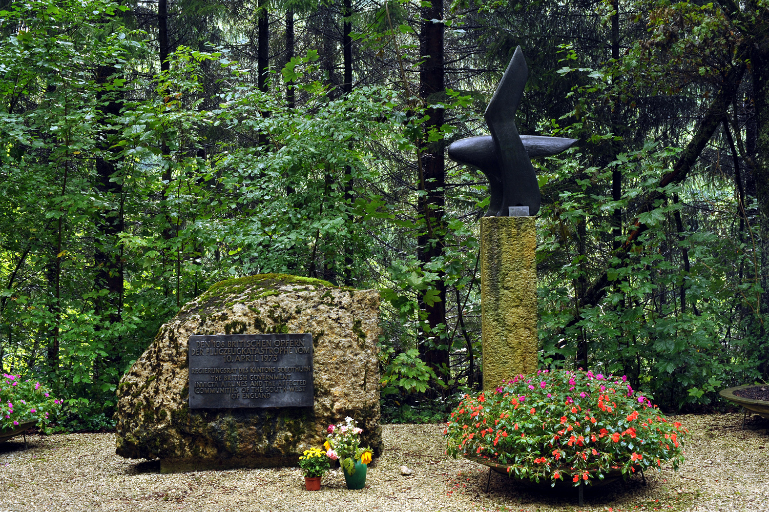 Memorial for the British victims of the crash of the Invicta International Airways flight 435 10th April 1973 near Hochwald; Solothurn, Switzerland.